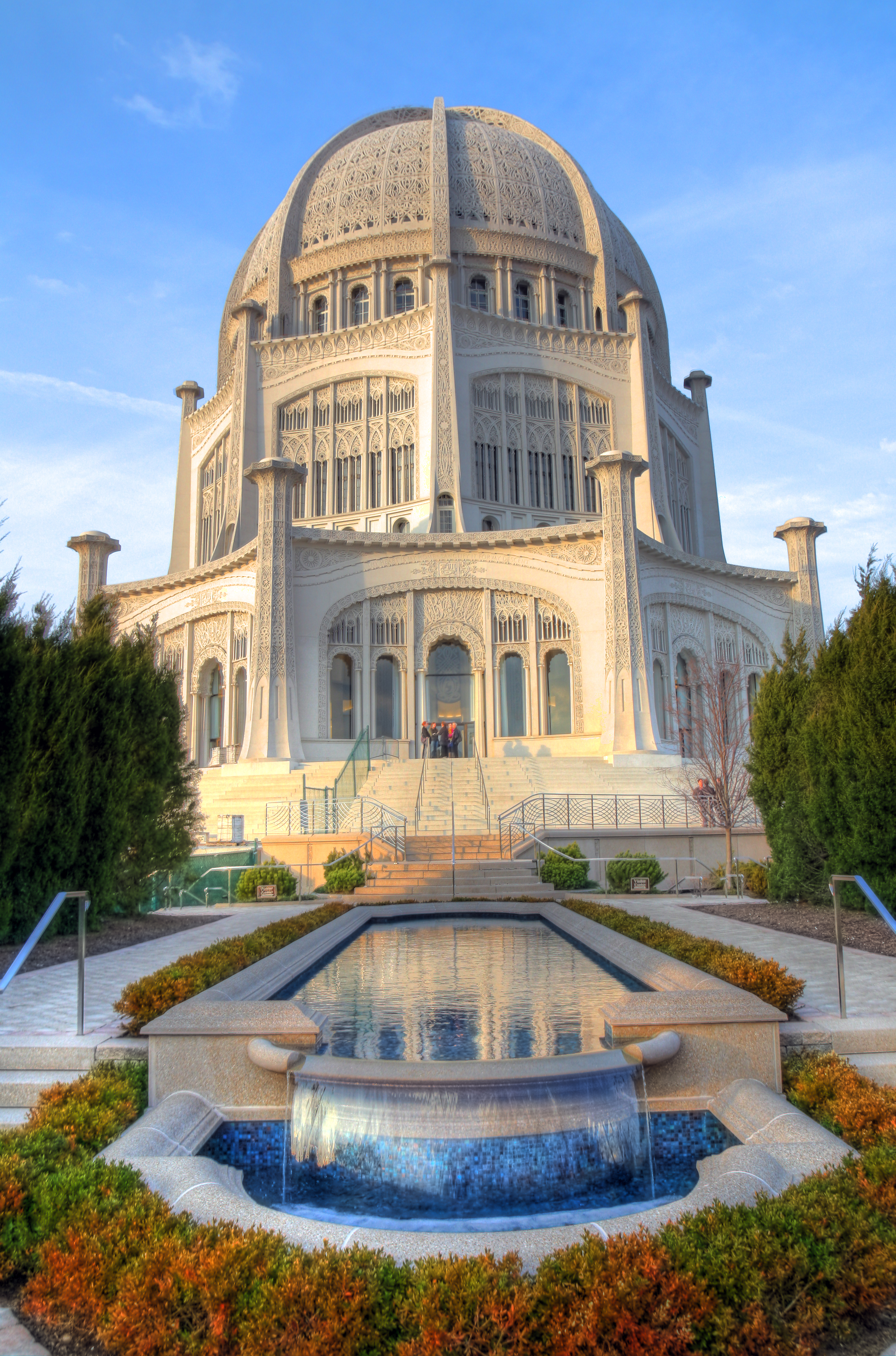 Less edited version of this.